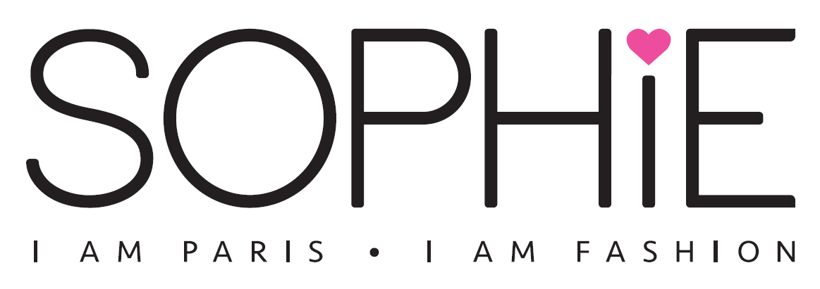 Sophie Paris logo